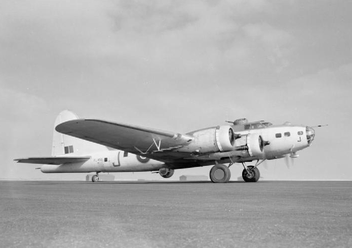 A Royal Air Force Boeing Fortress Mark IIA (FL459 "‘J") of No. 220 Squadron RAF, preparing to taxy at Benbecula, in the Outer Hebrides. This aircraft sank two U-boats (U 624 and U 707) and shared in the sinking of another (U 575) during its period of service with the squadron. The aerials of the ASV II radar with which FL459 is equipped are clearly visible on the nose and under the starboard wing.